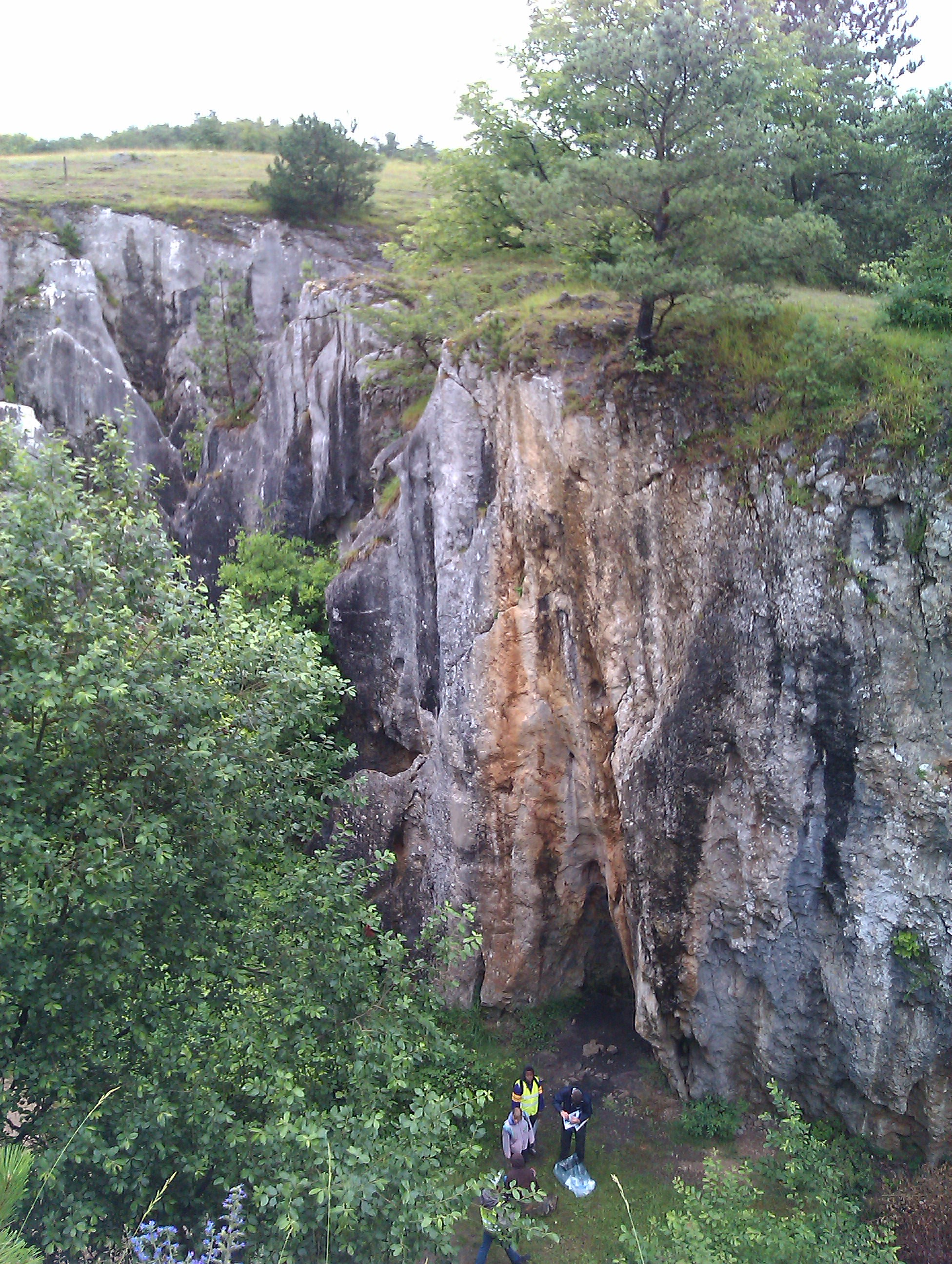 Fondry des Chiens Nismes Belgium